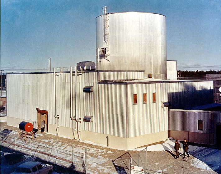 Photo of SM-1A Nuclear Power Plant